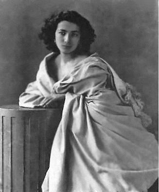 Sarah Bernhardt in the Role of Junie in "Britannicus" by :w:Nadar (photographer)}Felix Nadar| c.1860